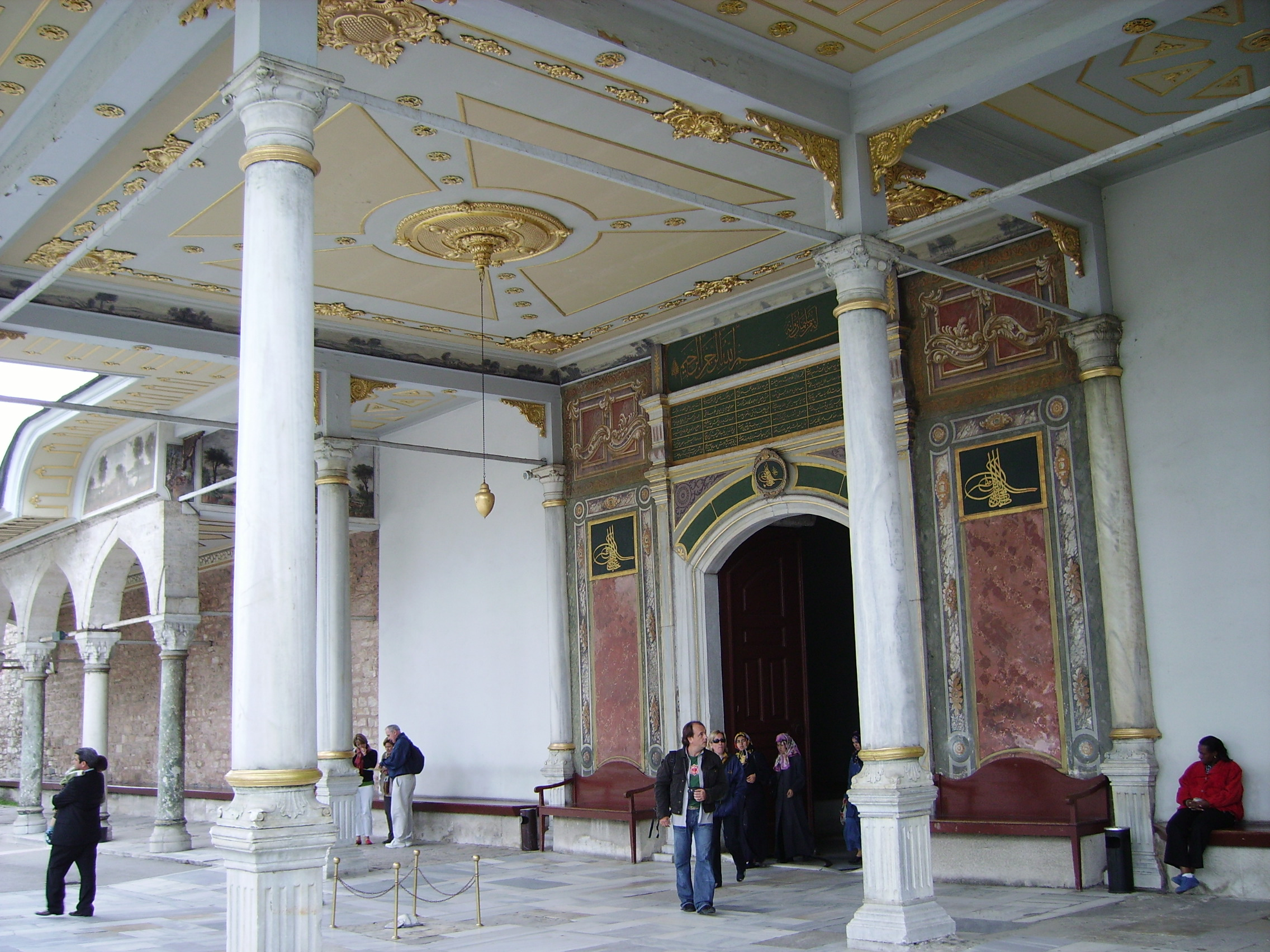 Topkapi Palace - gate to third yard.